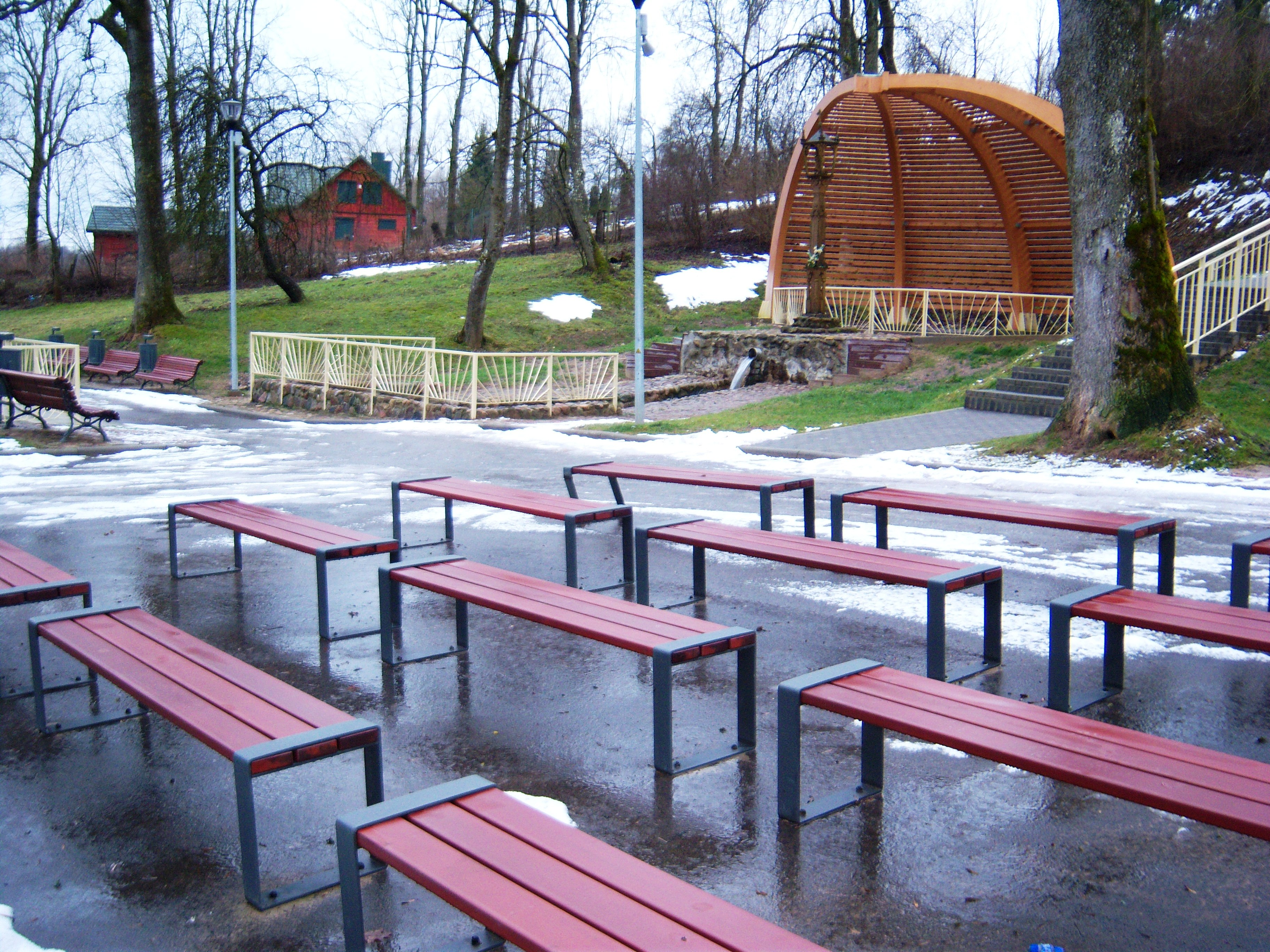 St. John's spring, Kavarskas, Lithuania